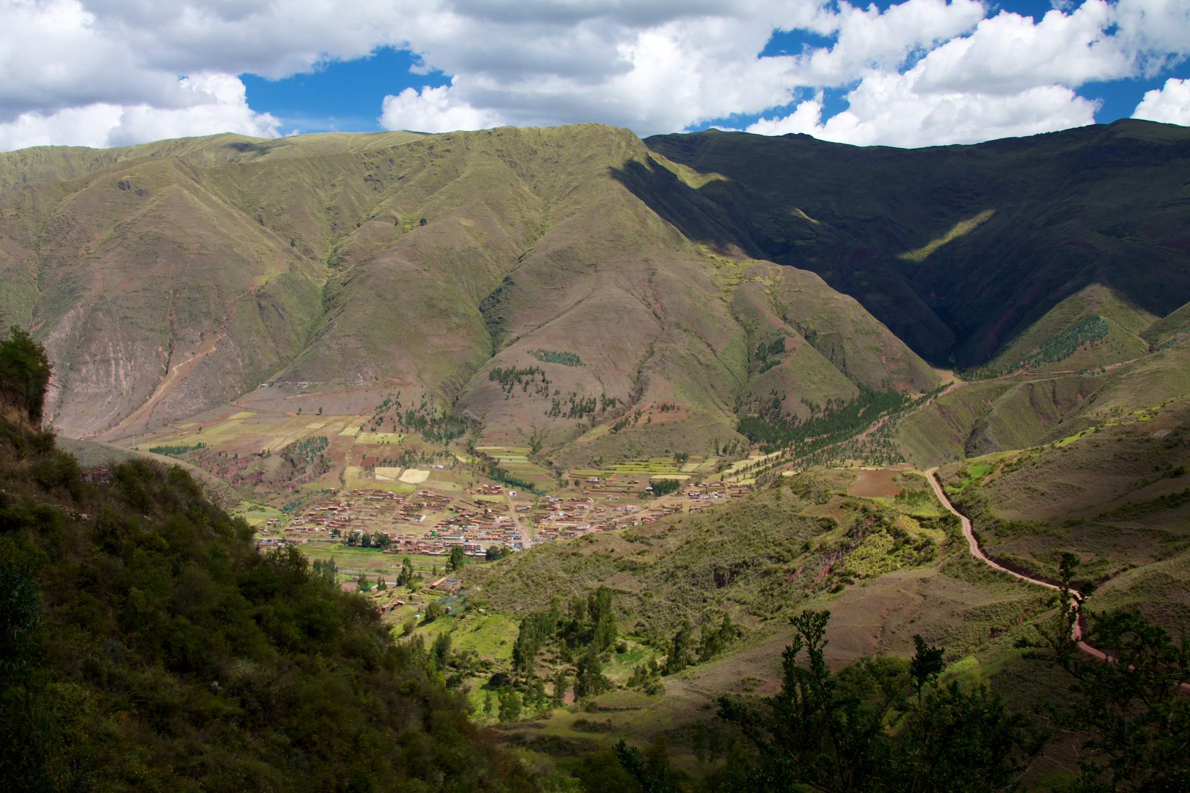 Peru - Cusco Sacred Valley & Incan Ruins 116 - looking down from Tipón